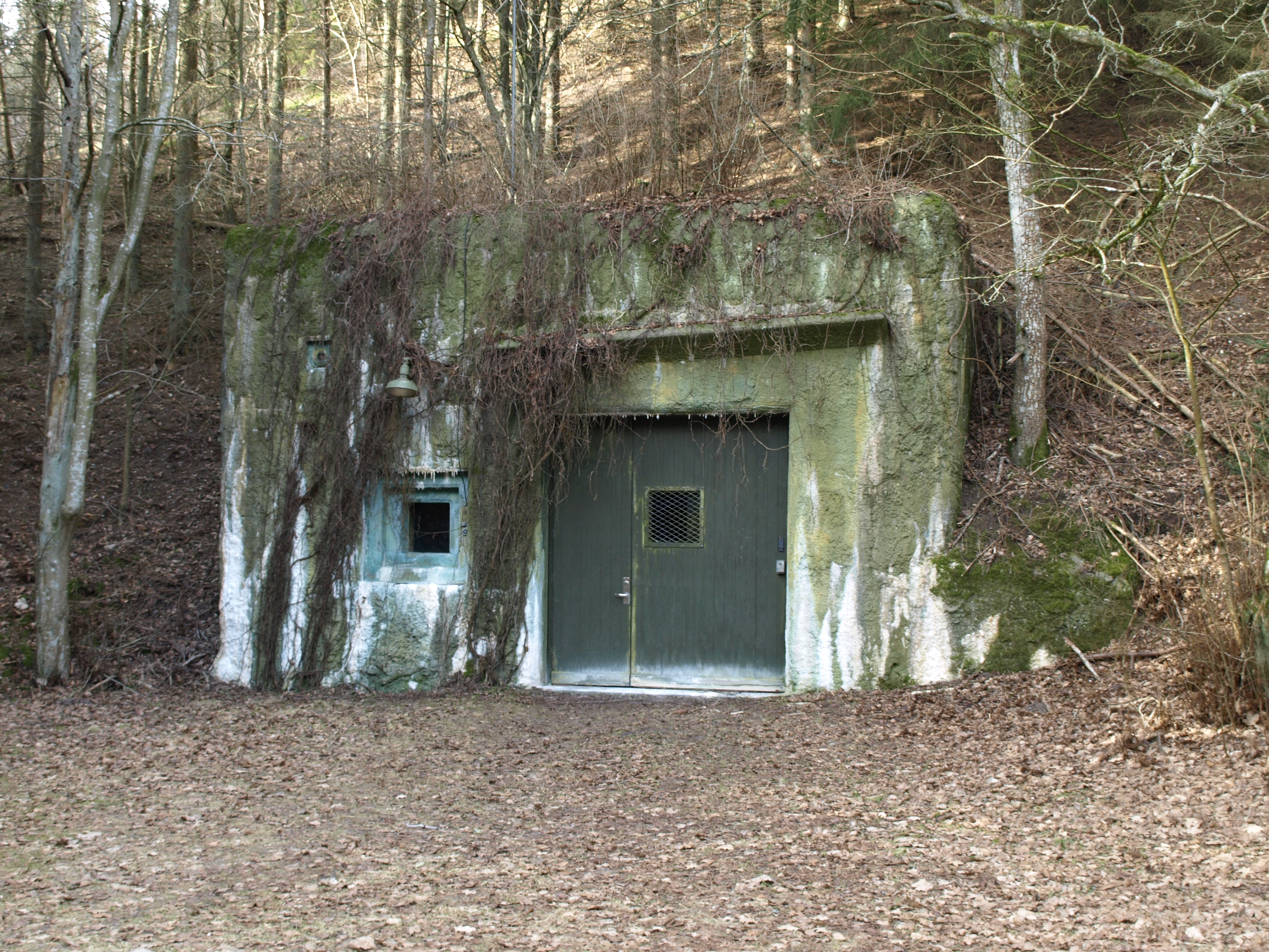 Structures around Regan Vest, the former 'Secret' danish bunker, supposed to house the Royal family and the Government in case of nuclear war or other crisis. It is located in a remote part of the largest forest in Denmark and the existence have been a great secret the last 40 years. The Bunker are no longer in use and are to become a museum, having just recently been declassified. Main entrance